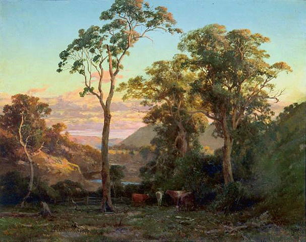 Near bacchusmarsh, sunset on the werribe